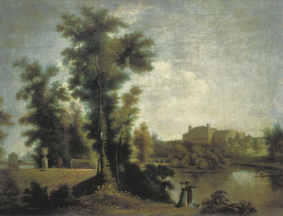 View of the Gatchina palace and park